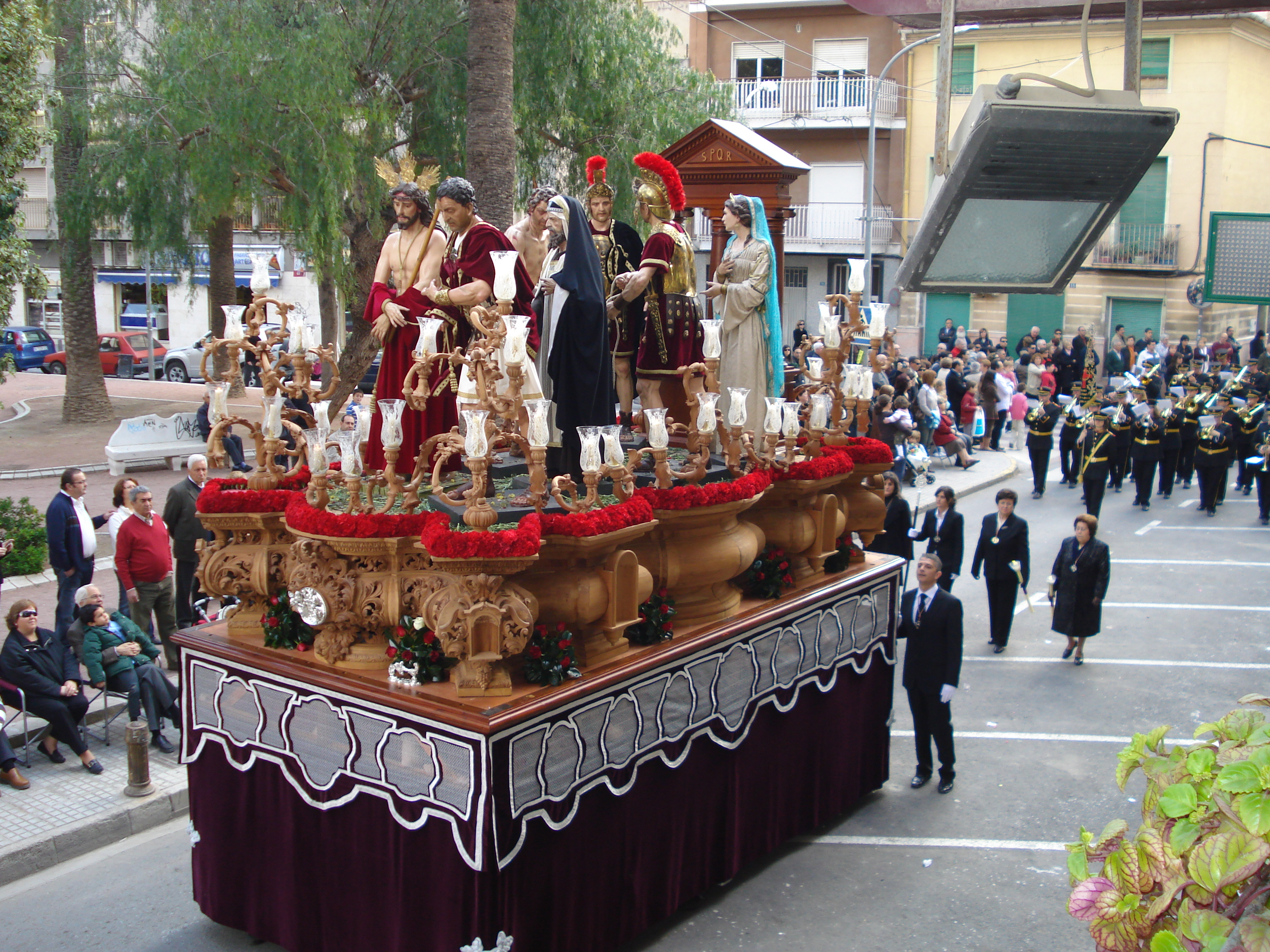 The image of Our Father Jesus of Ecce Homo in his Sacred Presentation (Aspe). Procession of the Way to the Calvary in the Good Friday morning.